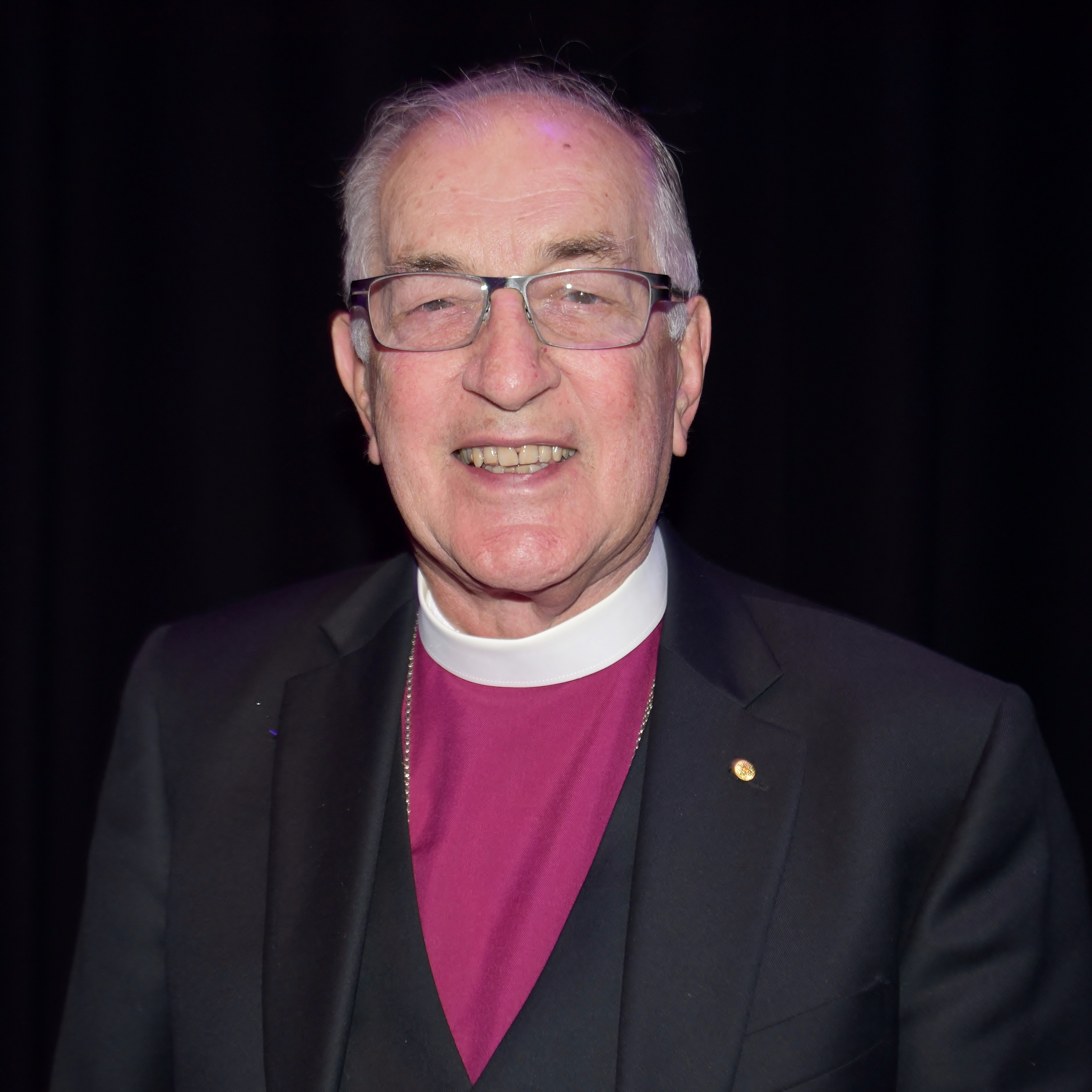 Portrait of Peter Carnley, former Anglican Archbishop of Perth and Primate of Australia, at an Anglican Schools Commission dinner at the Hyatt Regency Hotel, Perth